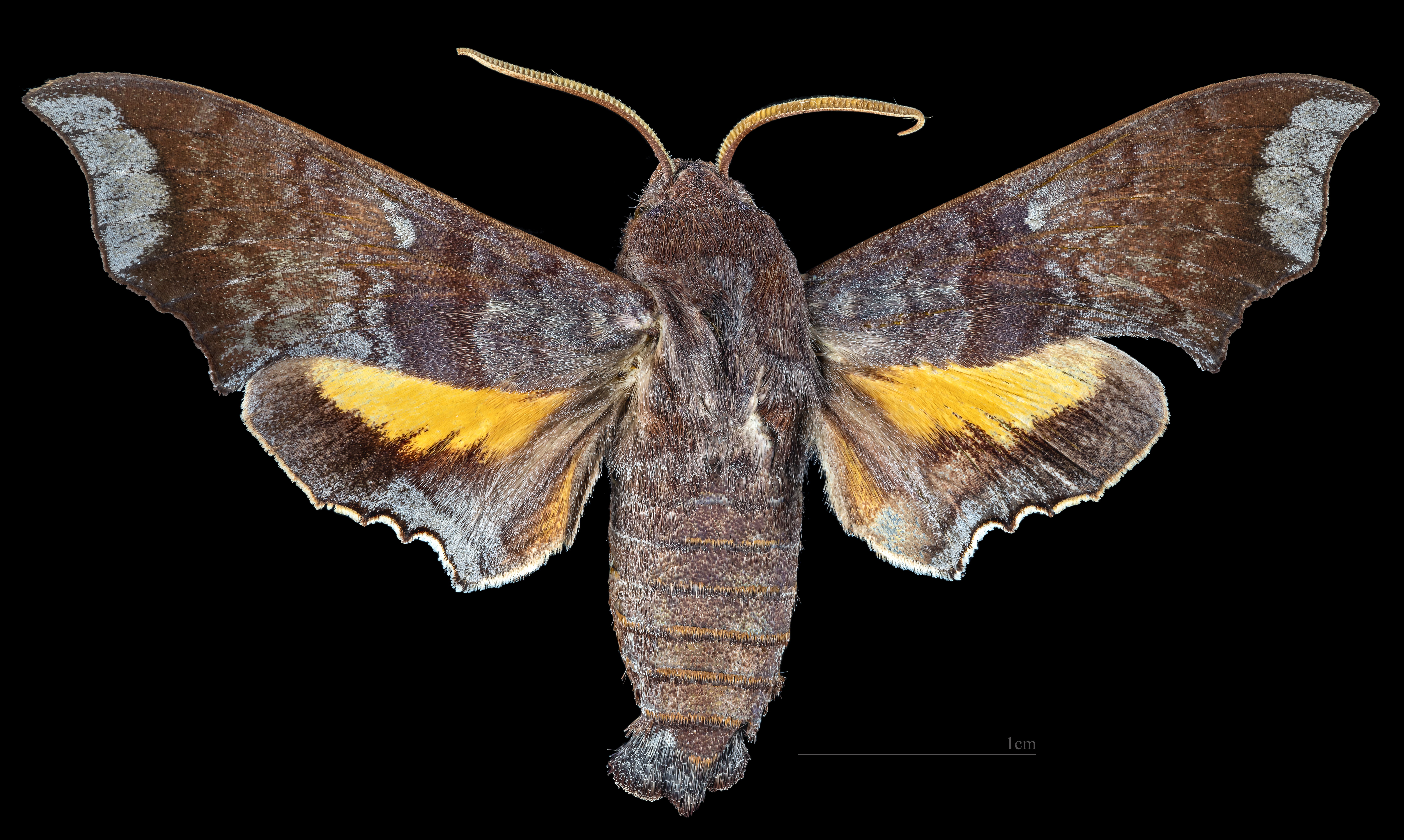 Perigonia leucopus - Dorsal side Collection of the Mathematician Laurent Schwartz